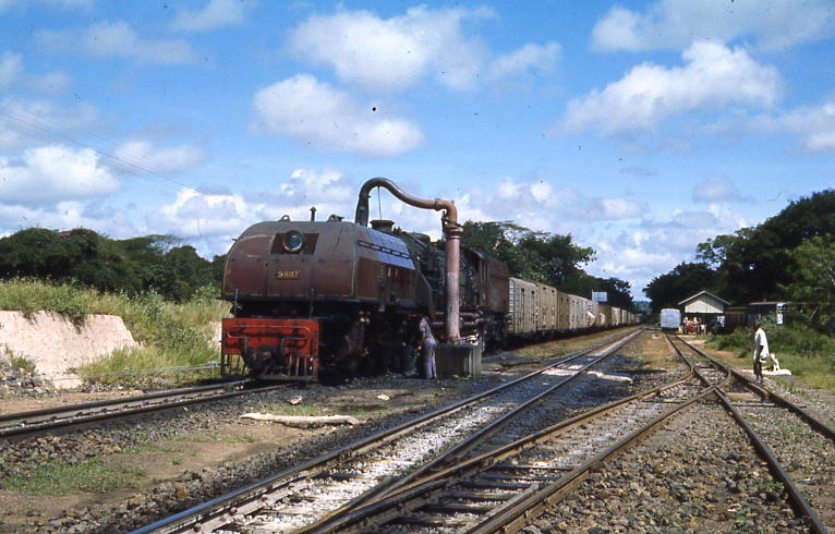 59 class 'Mountain' 4-8-2 + 2-8-4, 5907 Mount Kinangop, at Kibwezi